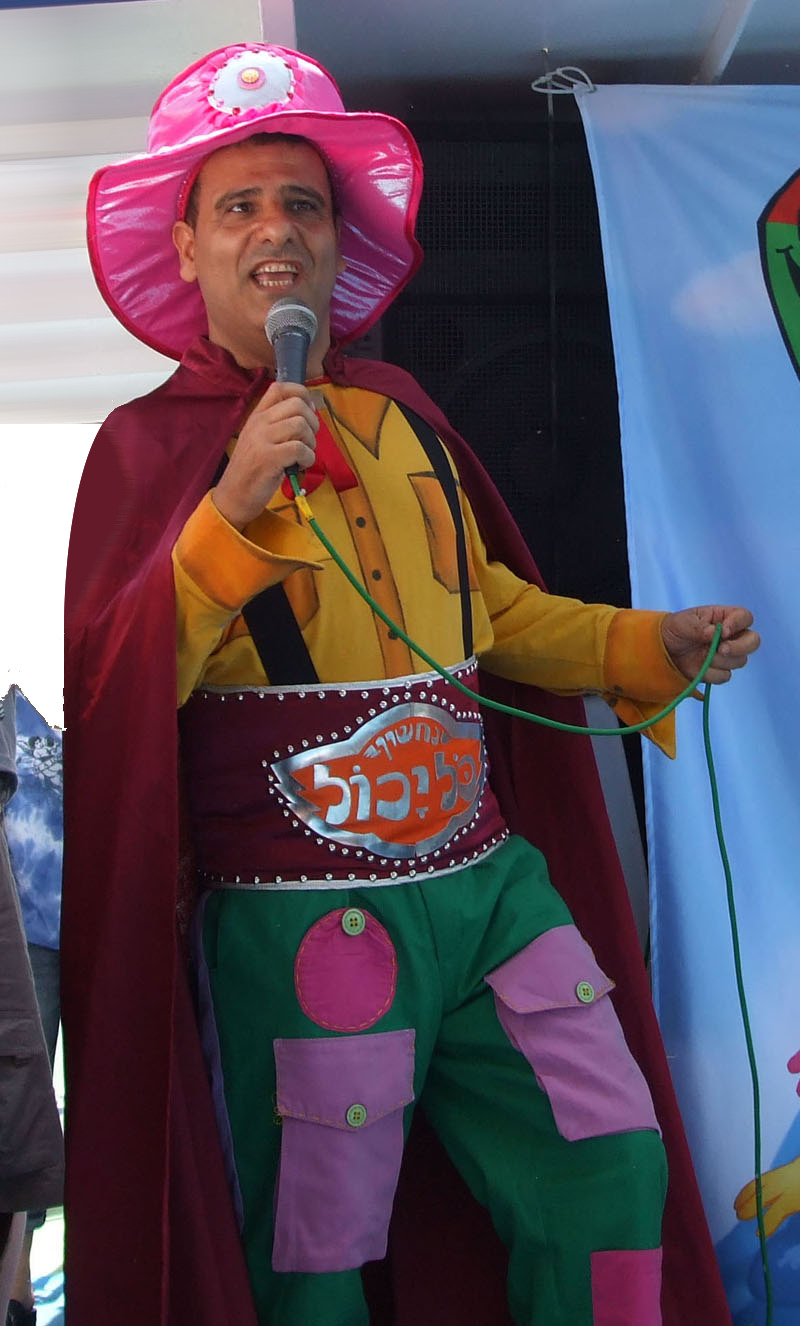 Assaf Ashtar performs as "Nachshon kol yachol" (literal: Nachshon omnipotent) on behalf of "Hop!" channel.